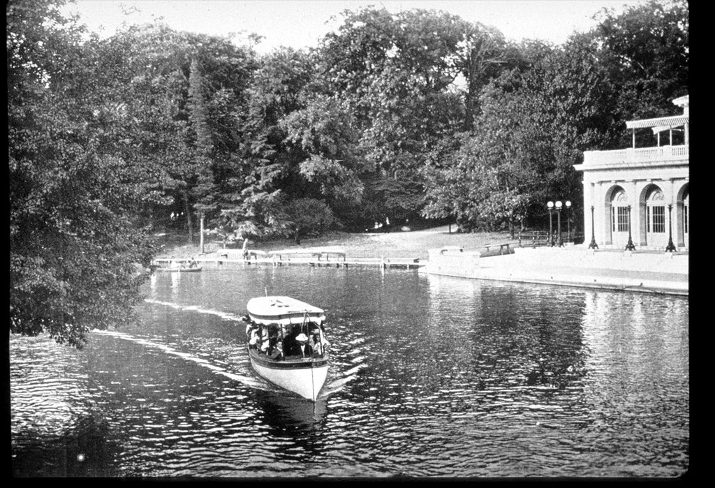 Prospect Park Boat House, ca 1910 The Boathouse in Prospect Park, Brooklyn New York was designed by Frank J. Helmle and Ulrich Huberty and constructed in 1905-07. It replaced an earlier rustic structure that had been situated on the north shore of the Lullwater and documented in William Merritt Chase's The Boat House, Prospect Park (1887). The boat in this image served as reference for the MV Independence, an electric boat currently sailing in Prospect Park.